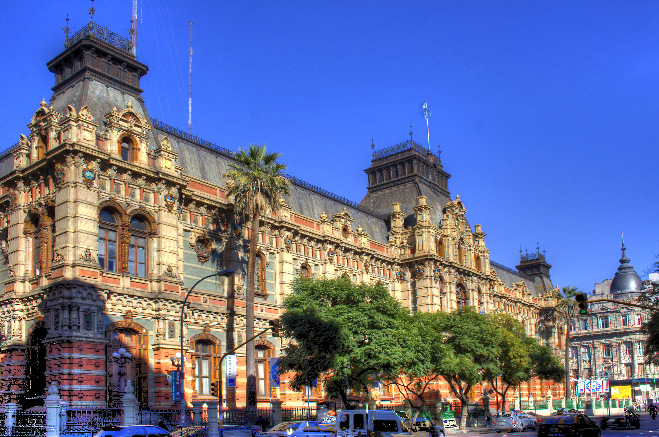 Full view of the façade of the Palacio de Aguas Corrientes in Buenos Aires.